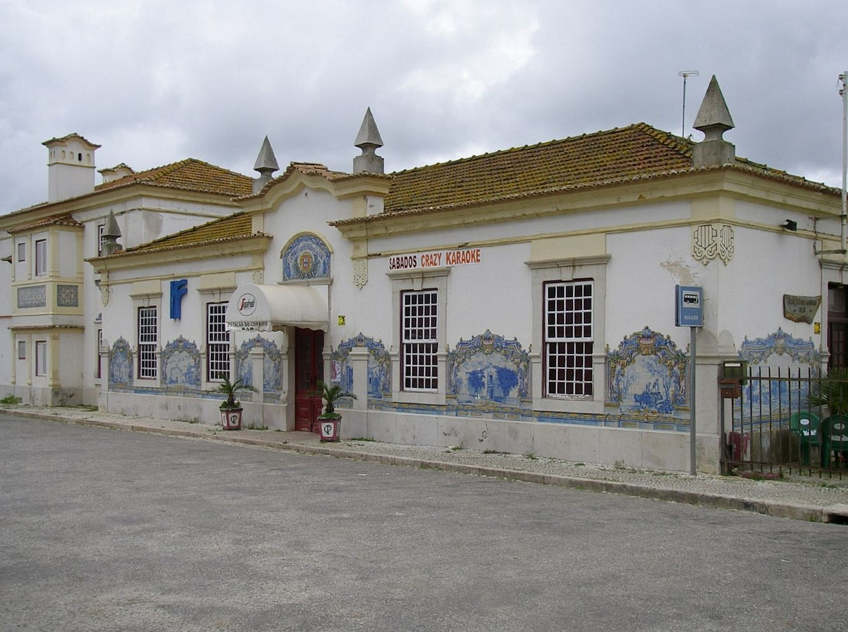 ex Railway station of Santiago do Cacém